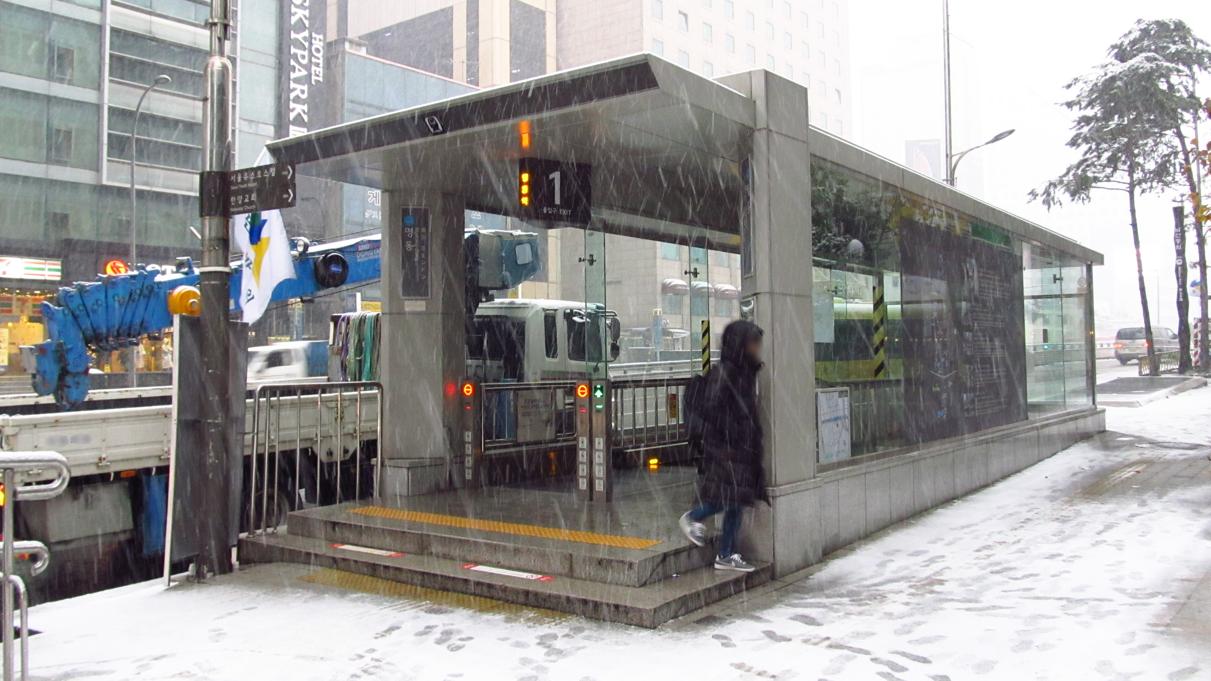 The no.1 entrance to Myeongdong Station on Seoul Subway Line 4 in Jung-gu, Seoul, Republic of Korea(South Korea)